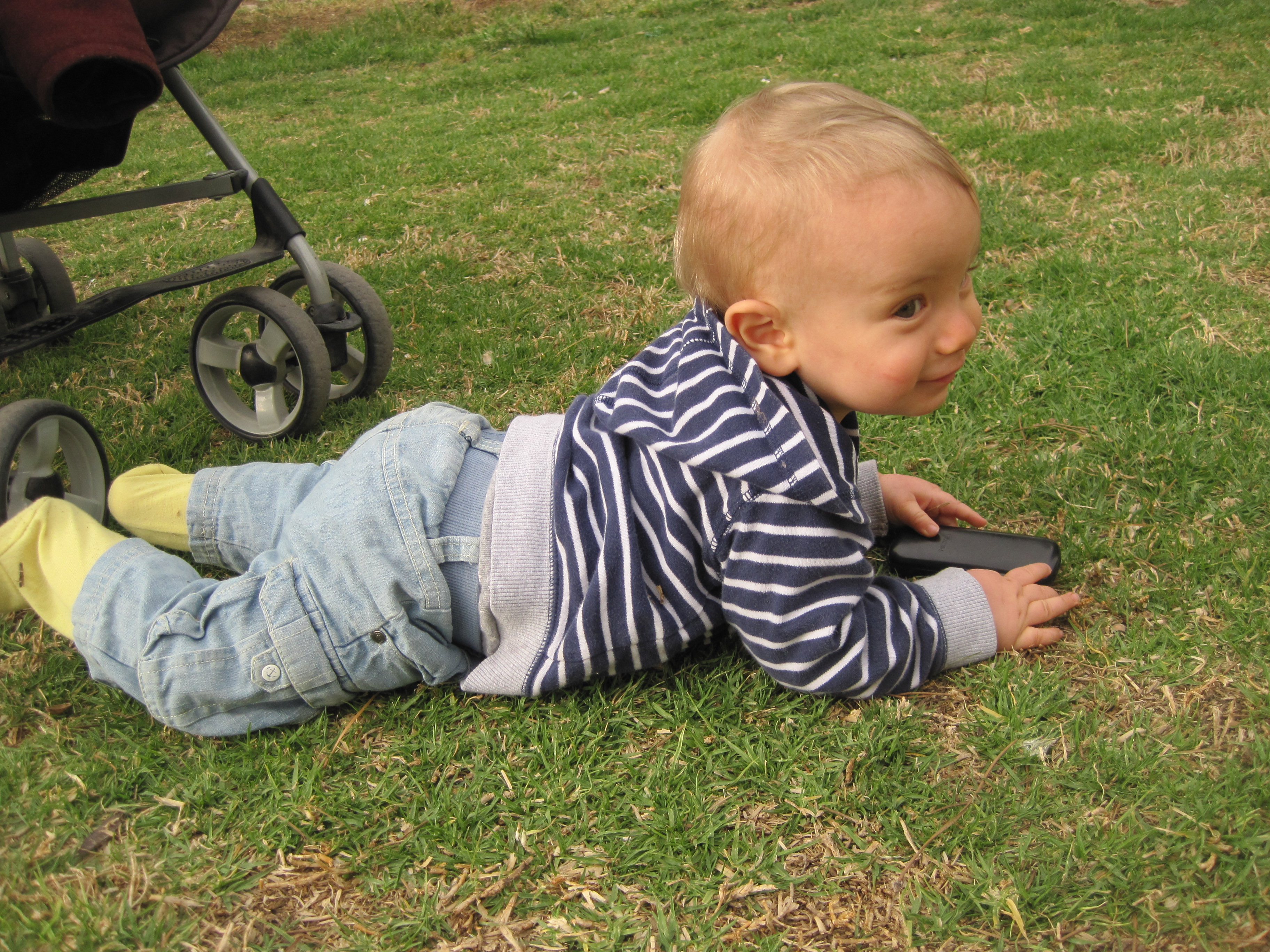 A 9 - month - old baby crawls